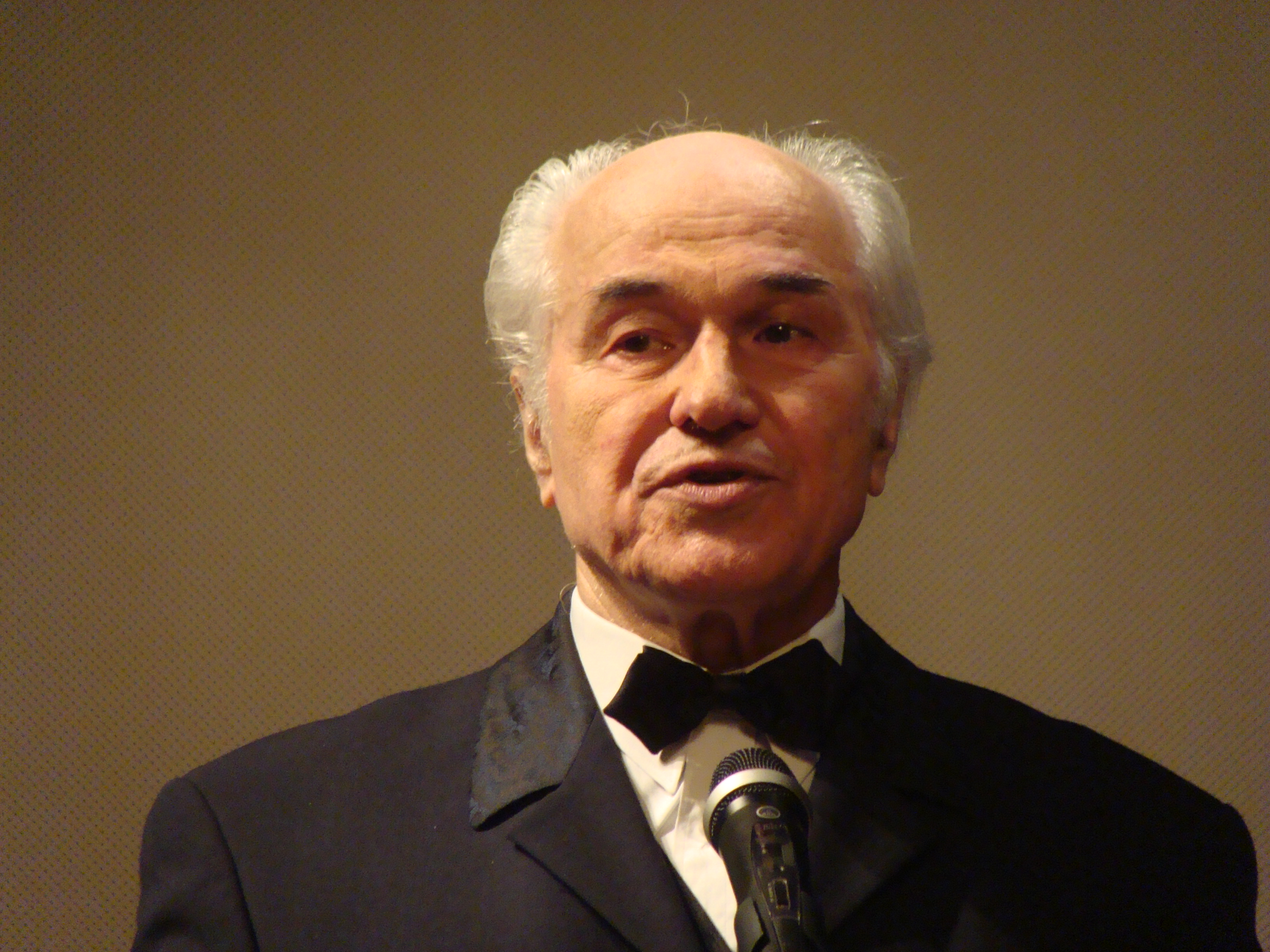 Eugen Doga in Vienna, Austria 05-12-2015